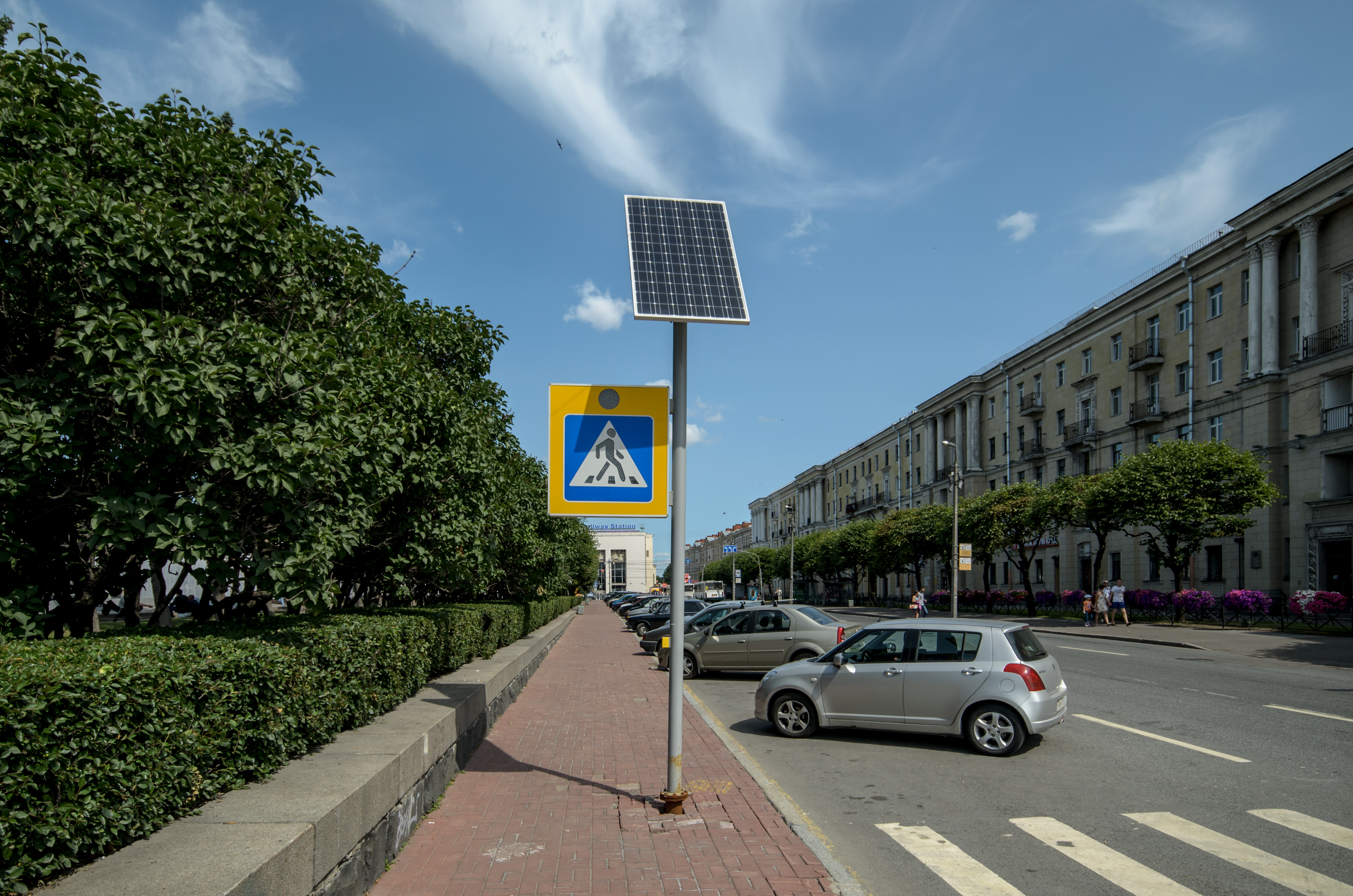 Pedestrian crosswalk sign with solar battery in Saint Petersburg